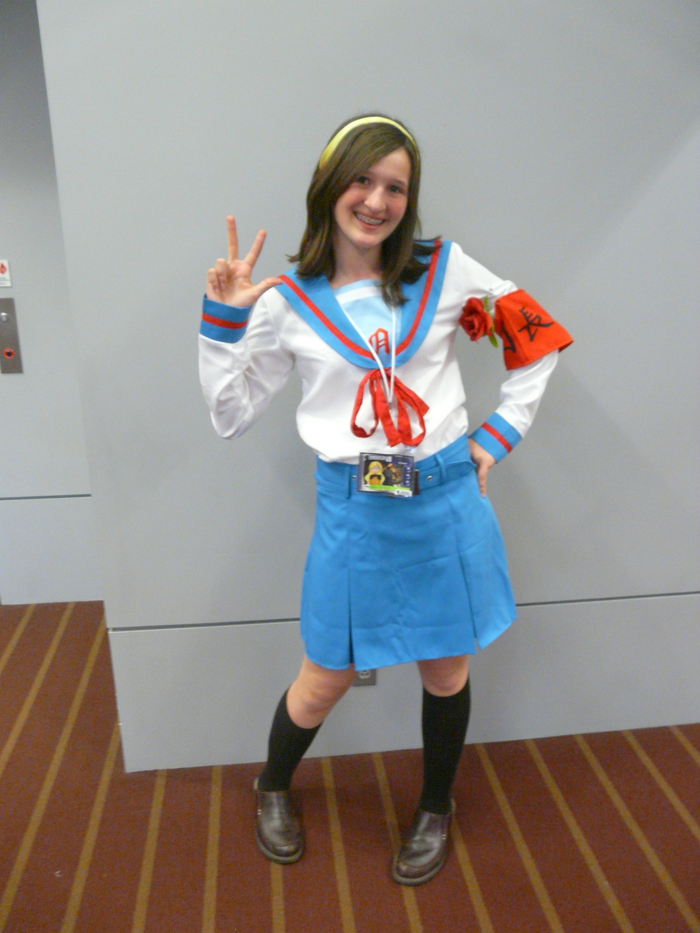 Tekkoshocon at David L. Lawrence Convention Center (2010)